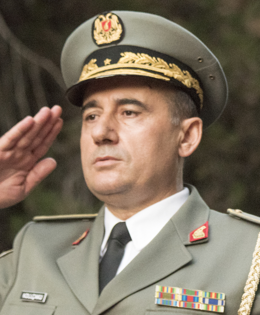 Chairman of the North Atlantic Treaty Organization Military Committee Gen. Petr Pavel and Albanian Chief of the General Staff Brig. Gen Bardhyl Kollcaku inspect an Albanian Honor Guard during the opening ceremony of the NATO Military Committee in Chiefs of Defense (MC/CS) Session in Tirana, Albania May 17, 2017. The Chiefs of Defense will meet to discuss Afghanistan, countering terrorism and other NATO operations and missions to provide the North Atlantic Council with consensus-based military advice on how to best meet global security challenges. (DOD photo by Navy Petty Officer 1st Class Dominique A. Pineiro)